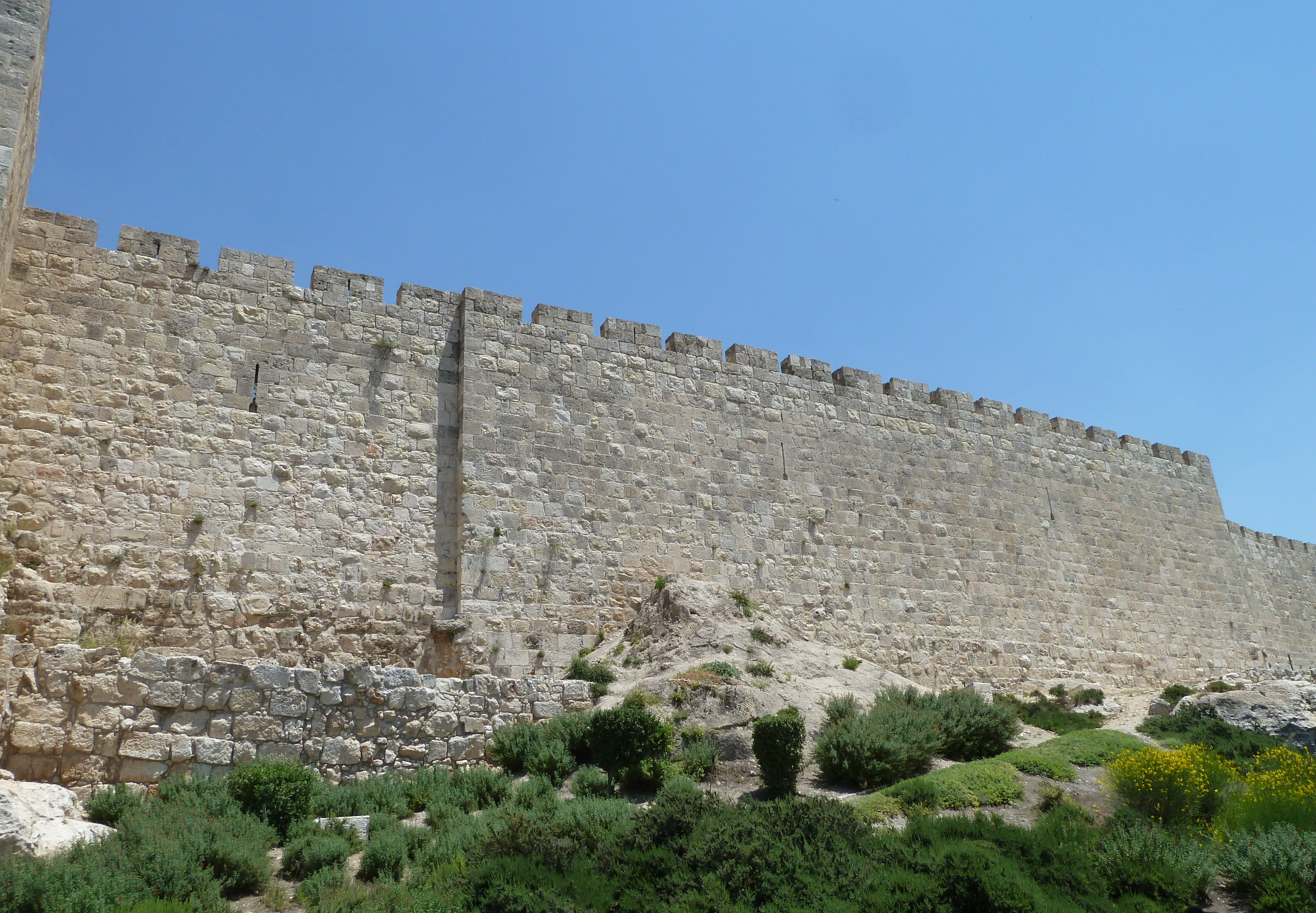 Old City Walls in Jerusalem, Western side, south of David's Citadel